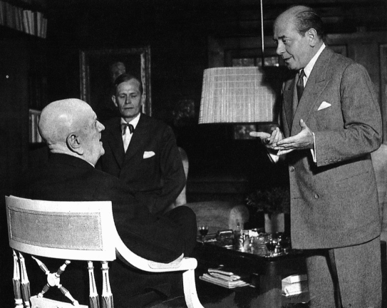 Eugene Ormandy (right) visits Jean Sibelius (left) in Ainola, Järvenpää. In the middle, Nils-Eric Ringbom.